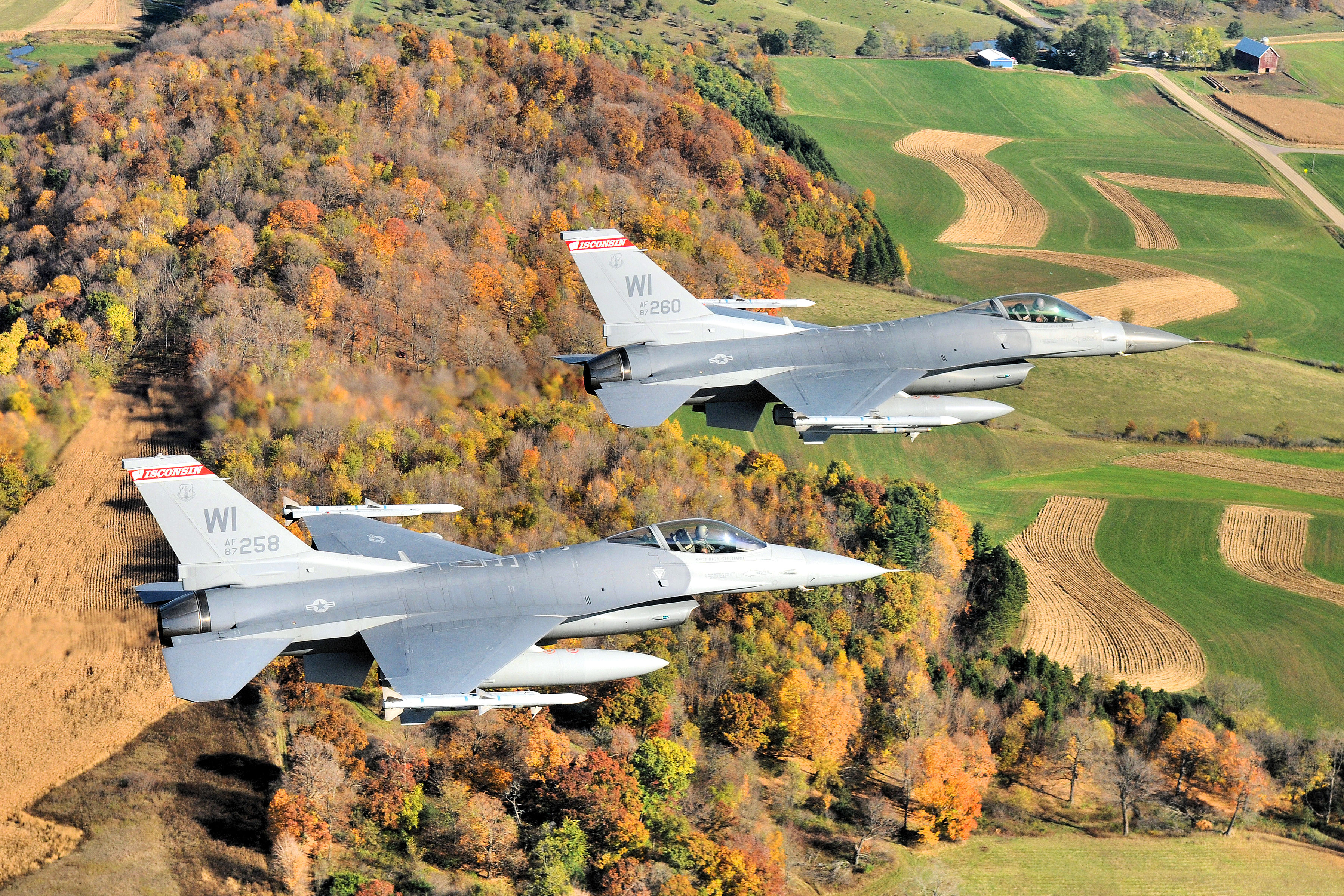 A two ship of F-16C Fighting Falcons from the 115th Fighter Wing, Wisconsin Air National Guard on a routine training mission in the skies over Wisconsin October 21st, 2008. (U.S. Air Force Photo by Master Sgt. Paul Gorman) (RELEASED)